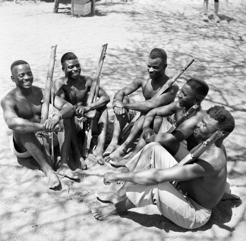 Soldiers of the King's African Rifles (KAR) during the British advance into Italian Somaliland, 13 February 1941. Soldiers of the King's African Rifles (KAR) during the British advance into Italian Somaliland.